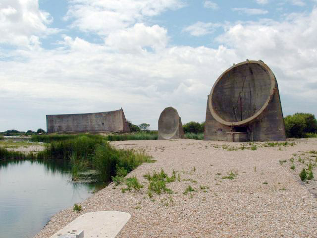 Listening Ears near to Greatstone-on-Sea, Kent, Great Britain. These are concrete listening ears built for the Second World War. Aeroplanes flying across the channel could be heard by observers positioned near these "ears".